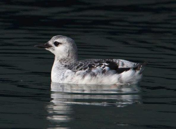 Black Guillemot - Teista Cepphus grylle in first winter plumage in Iceland